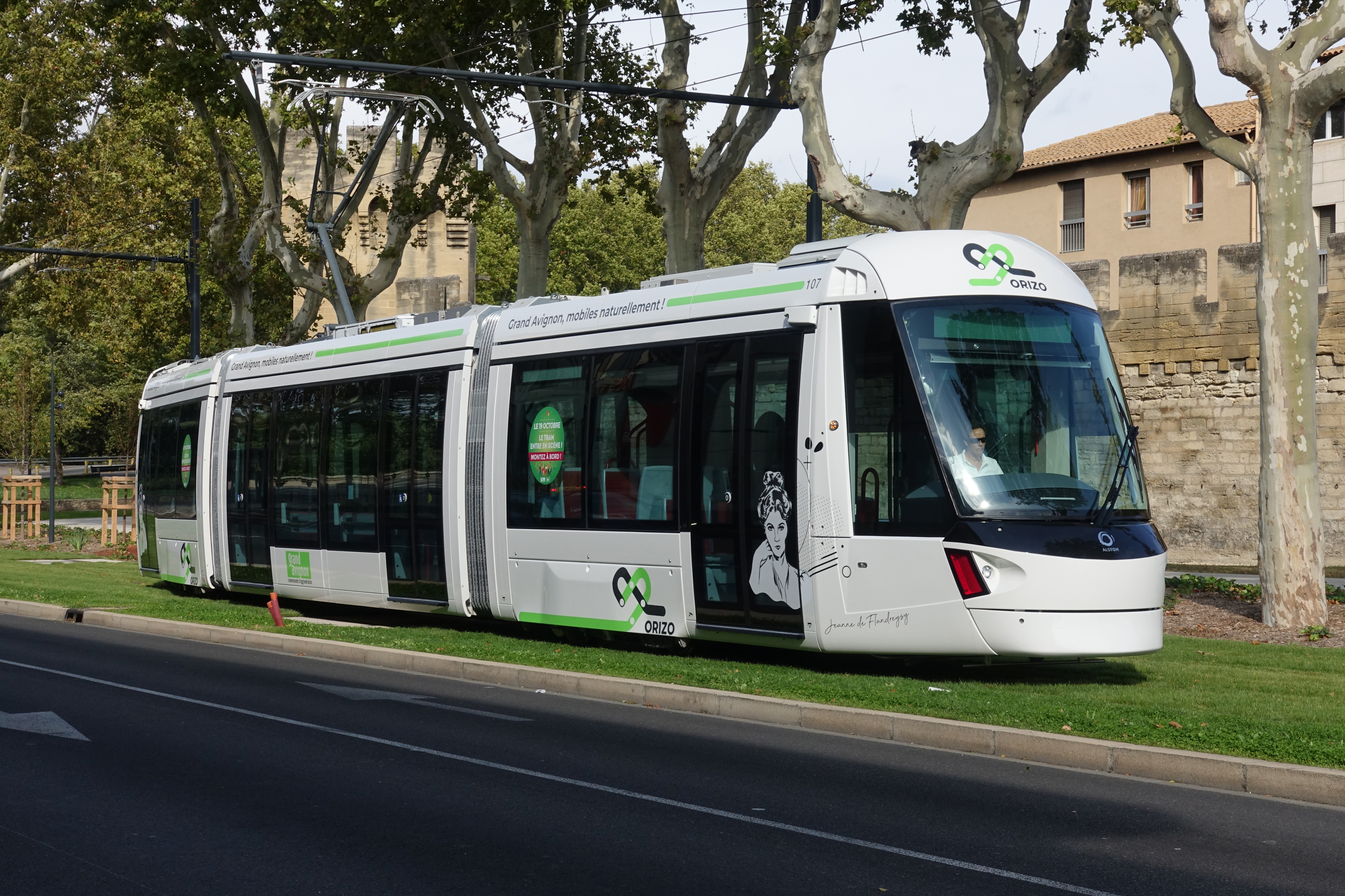 Tram unit #107 of Avignon tramway near Saint-Roch - Université des Métiers station